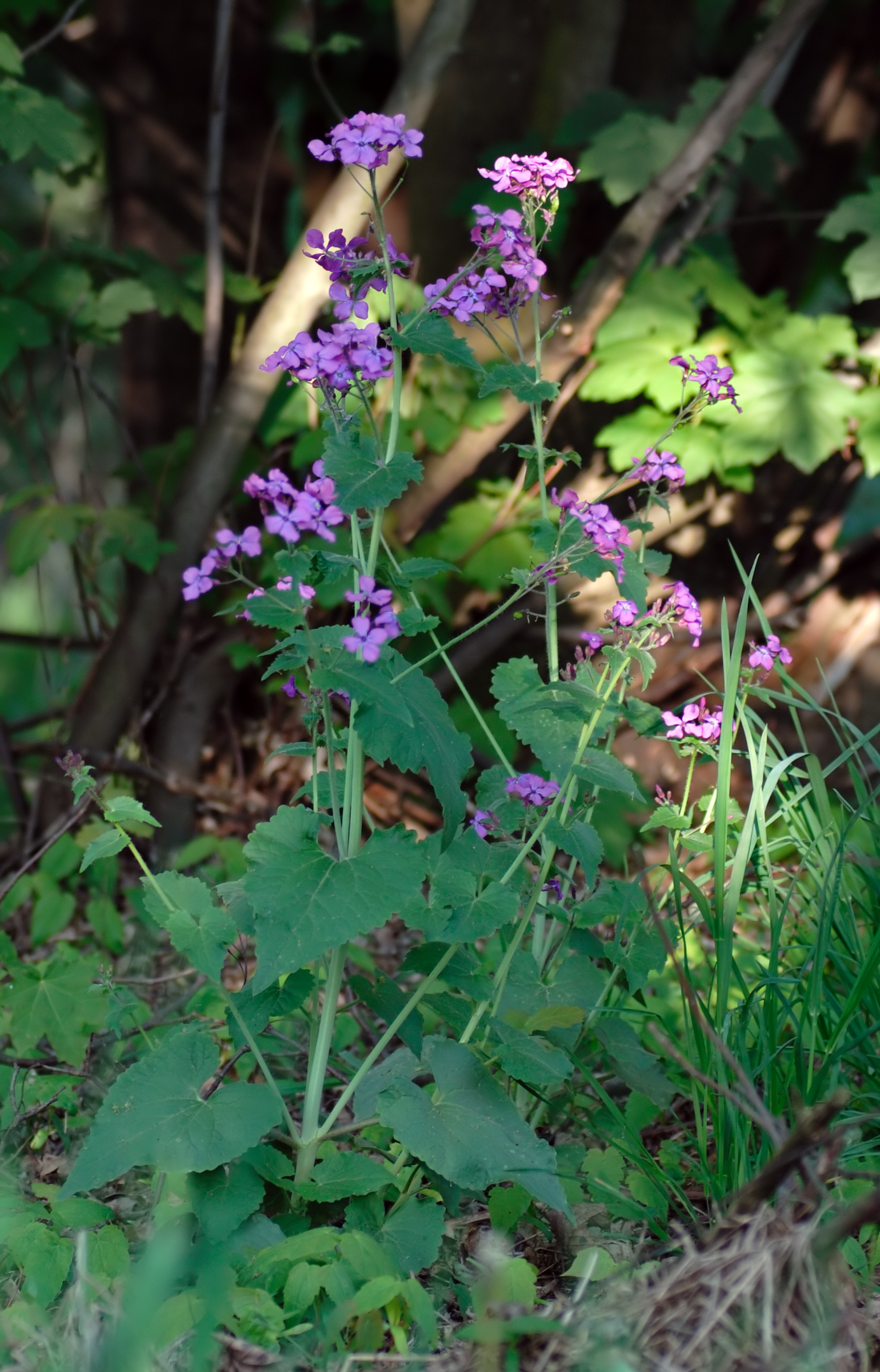 This image shows an Annual honesty (Lunaria annua). Thanks to Fice for identifying this plant.